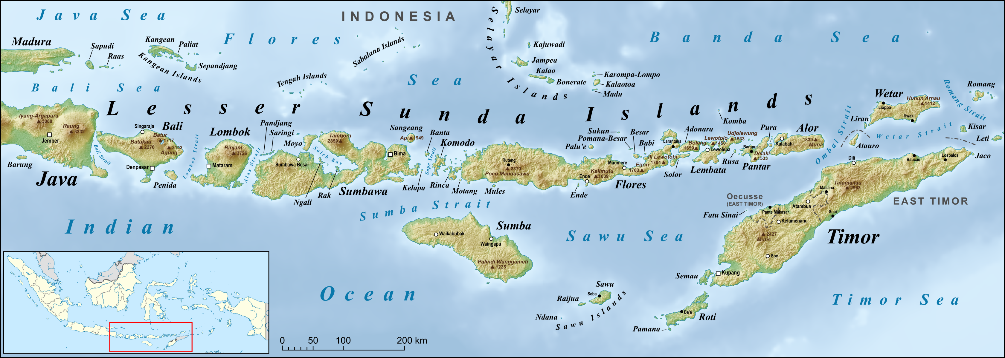 Map of Lesser Sunda Islands, including Bali, Lombok, Sumbawa, Flores, Lembata, Pantar, Sumba, Savu, Rote Island and Timor, also Wetar, the Kangean Islands, the Tengah Islands, the Sabalana Islands and the Selayar Islands